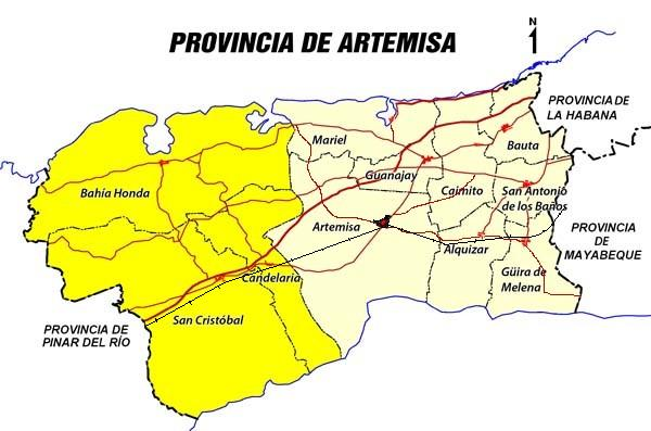 Map of Artemisa Province in Cuba, showing main roads, railways and municipalities